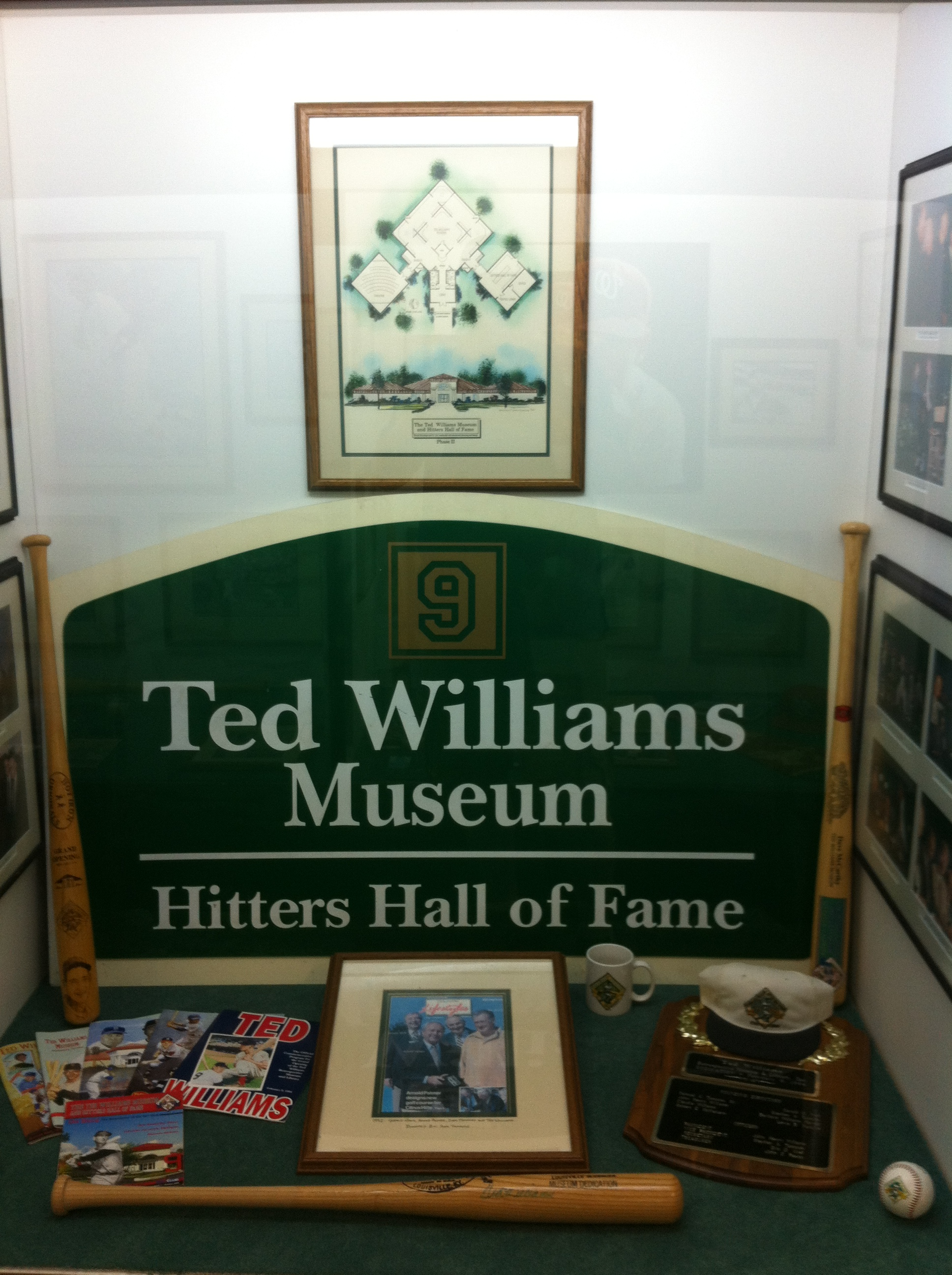 Ted Williams hitters hall of fame display, Tropicana Field, St. Petersburg Florida